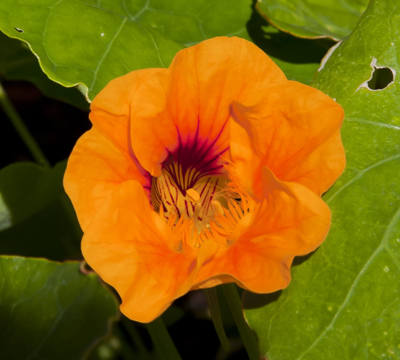 Nasturtium (Tropaeolum majus), mill garden, Sierra of Saint Philip, Portugal